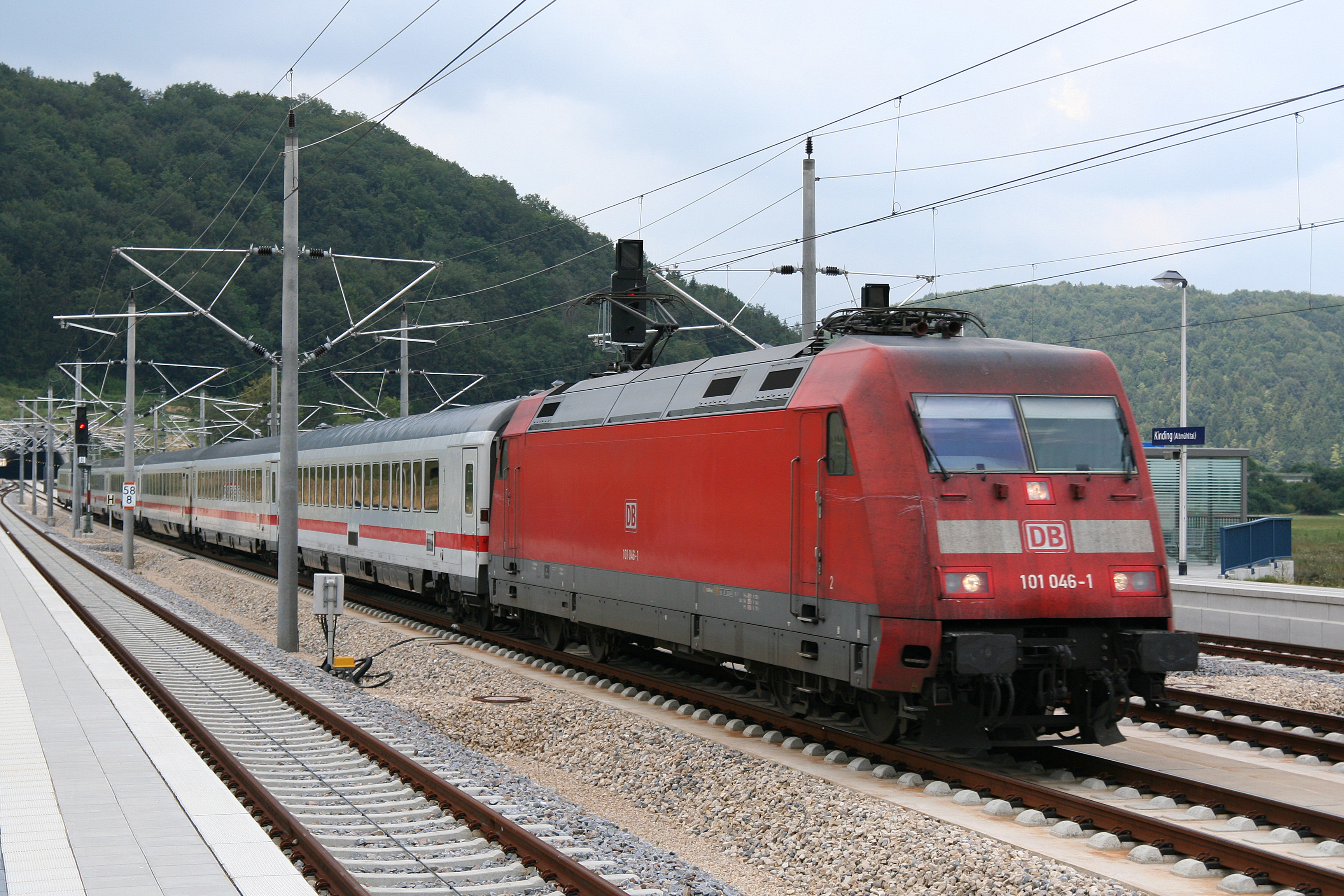 A DB class 101 is passing through the station of Kinding, Nuremberg-Munich high-speed railway line